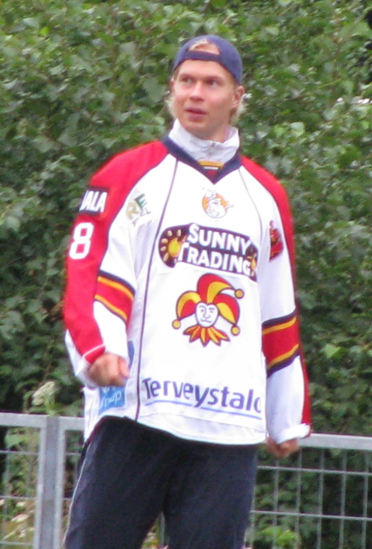 Jani Rita, Jokerit